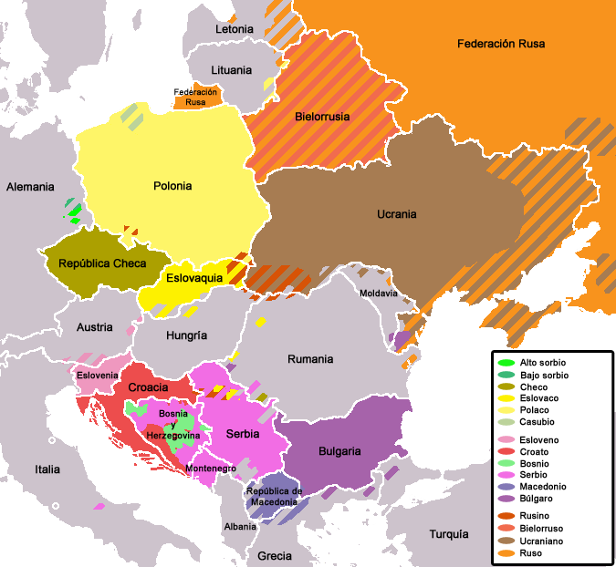 Map of Slavic languages in Spanish